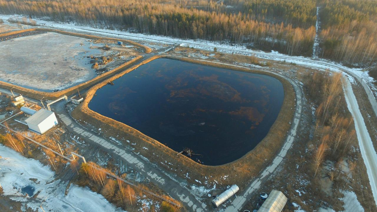 Open card with liquid waste, Krasnyi Bor, 2015